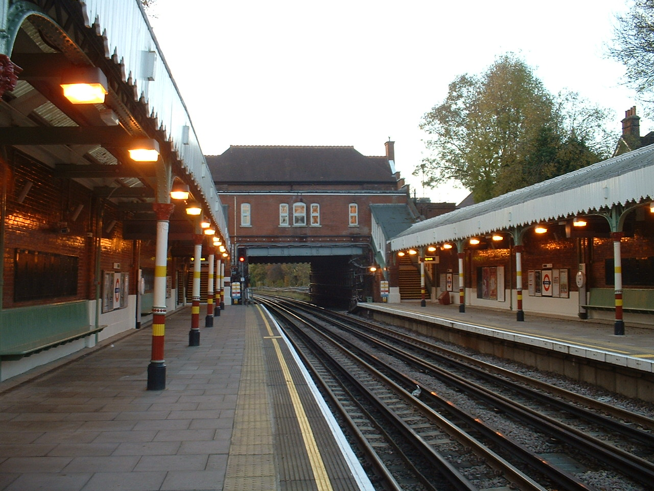 Chigwell tube station looking west